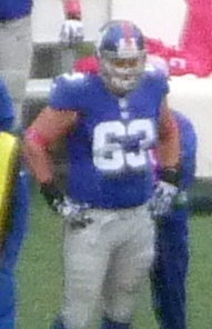 Eli Manning in shotgun formation vs. the Browns, 2012